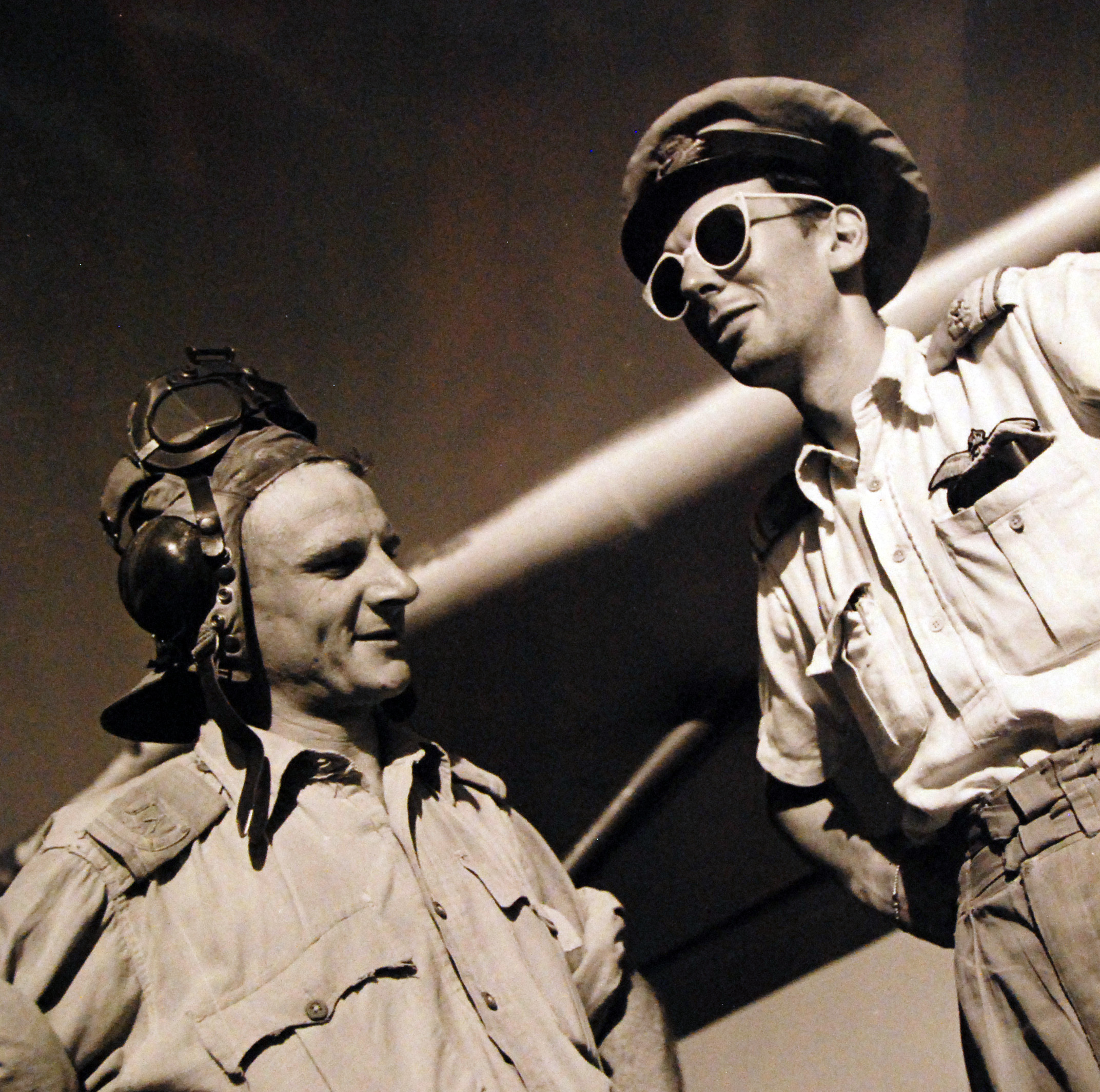 80-G-474083 (TR-9849): Two test pilots are shown at Royal Navy Air Station in Coimbatore, India, where planes received from U.S. Lend-Leases are put into commission. At right is Chief Test Pilot Lieutenant Stanley Adams. Photographed by Lieutenant Wayne Miller, April 1944. U.S. Navy Photograph, now in the collections of the National Archives. (2015/12/08).